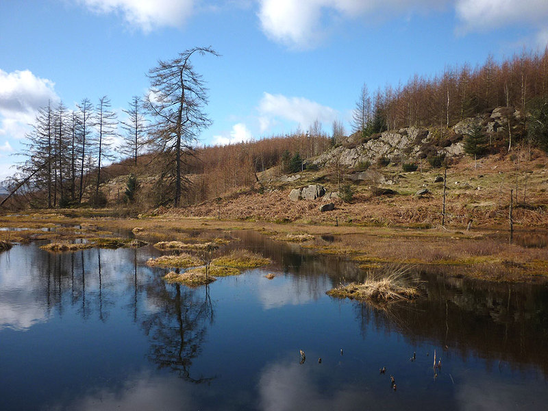 A shallow body of water at Brown Stone Moss, Claife Heights, Lake District, Cumbria, England